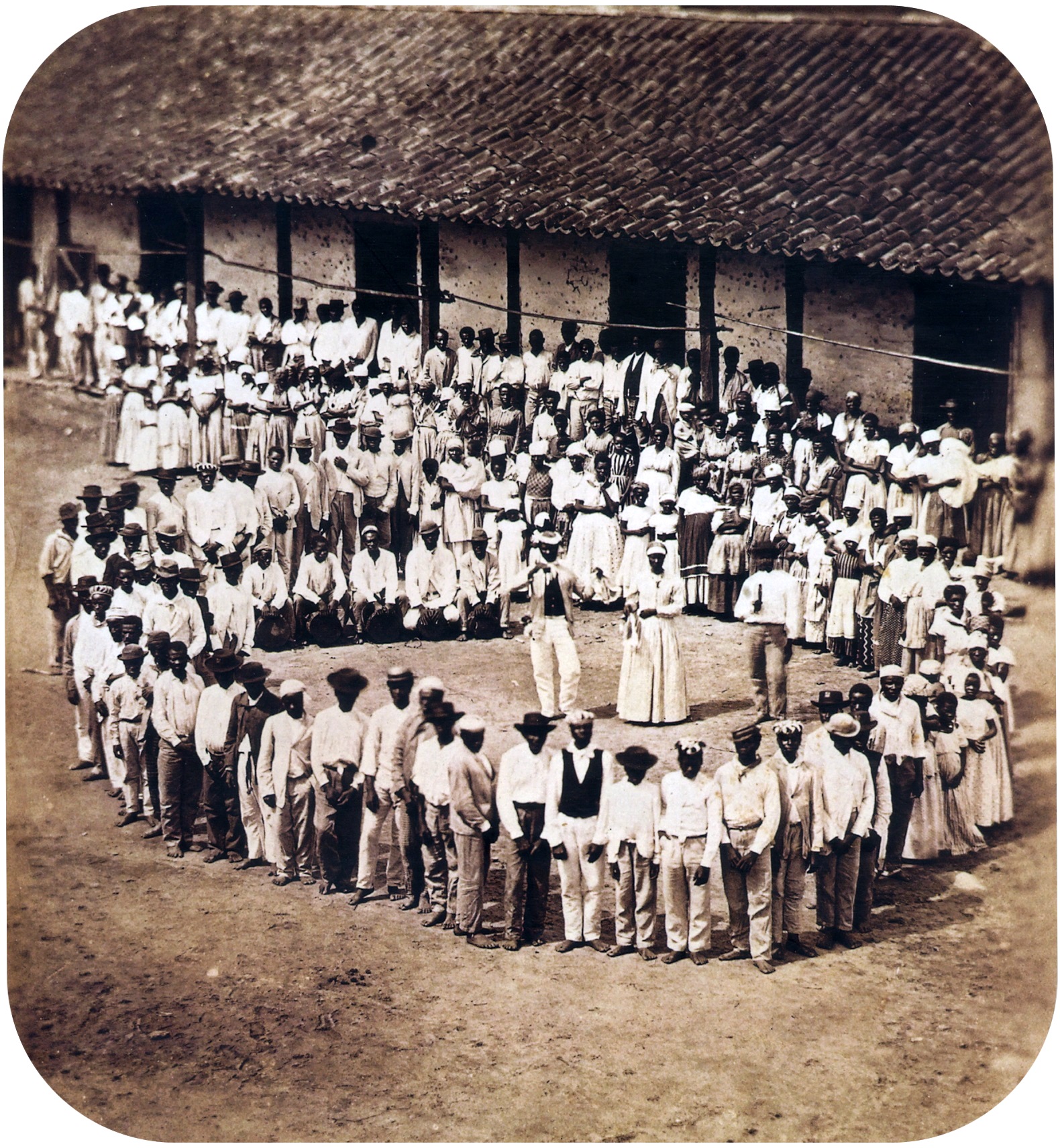 Slaves celebrate a congado (a Christian ritual with native African elements) in a farm in the province of Minas Gerais, Brazil.